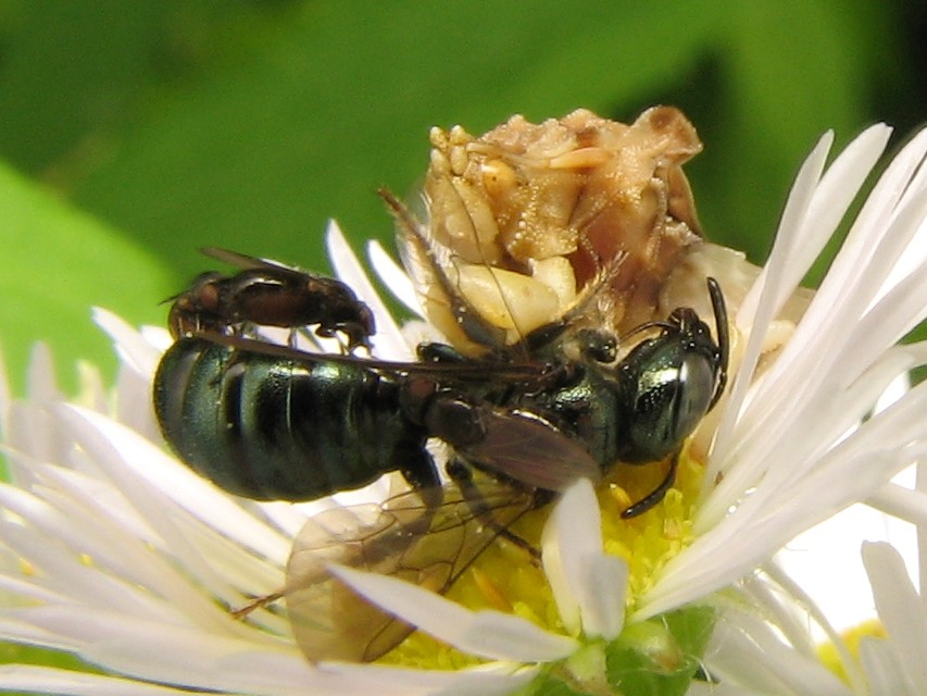 Freeloader fly, Neophyllomyza, on bee killed by ambush bug. Horsham Trail, Horsham, Montgomery County, Pennsylvania, USA.